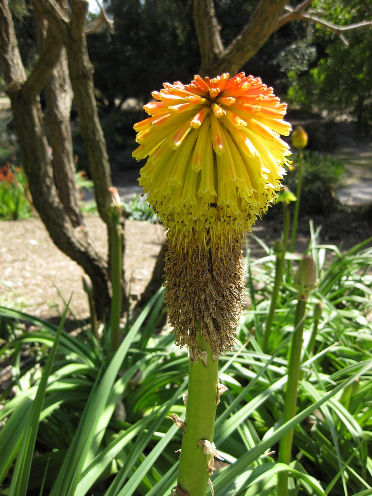 Photographed at Huntington Gardens (Los Angeles) in March